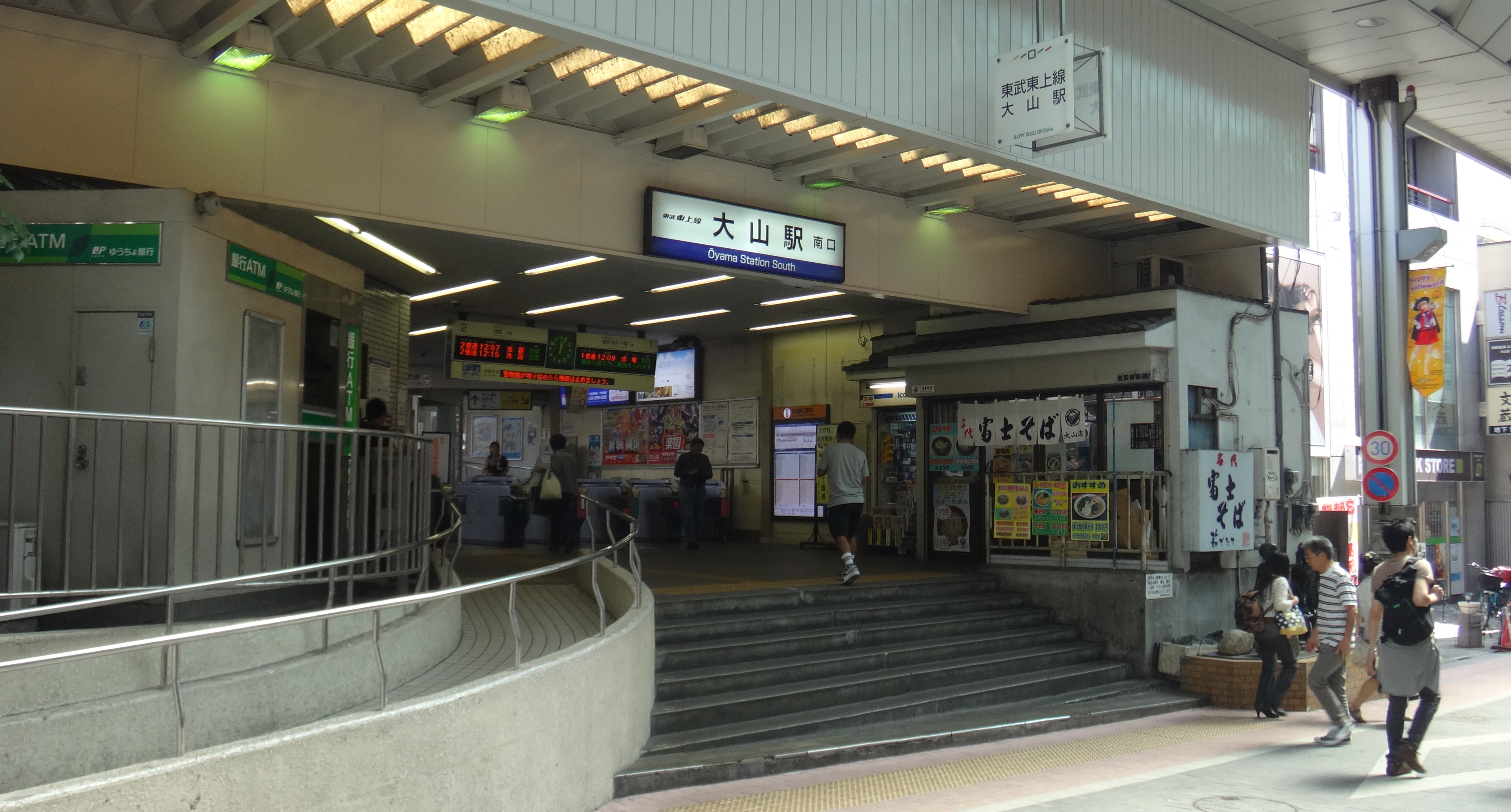 The south entrance at Oyama Station on the Tobu Tojo Line